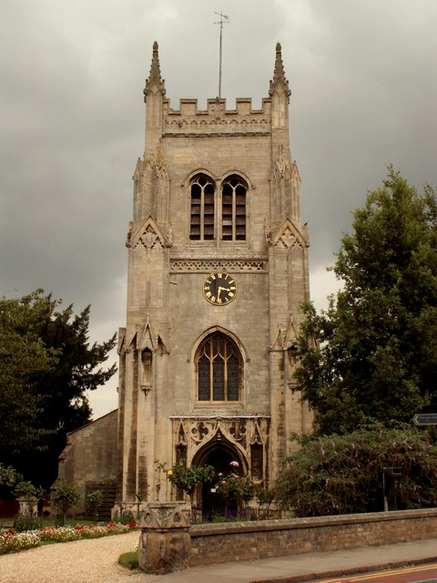 St Mary's parish church, Huntingdon, Cambridgeshire, seen from the west